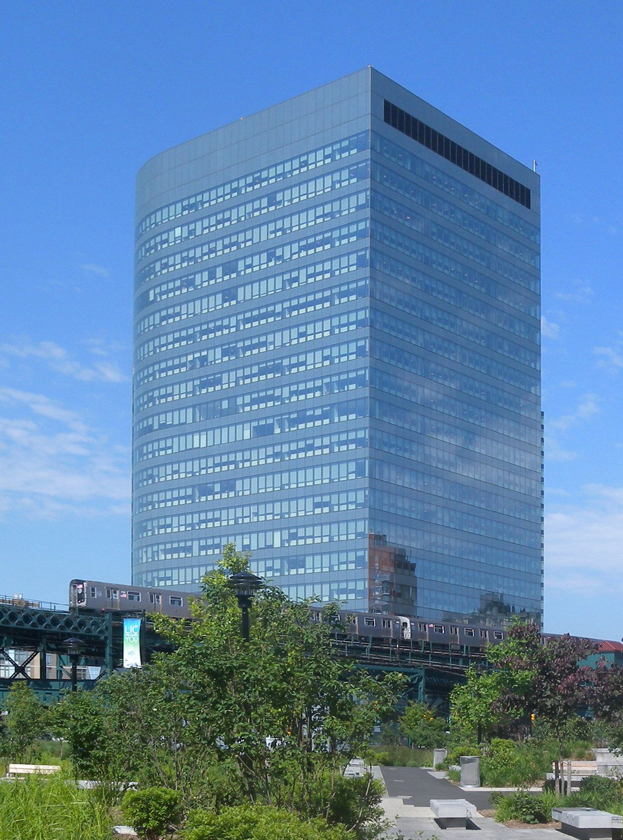 Looking west from the east end of Queens Plaza at the newly renovated Plaza and new Gotham Center on a sunny late morning.